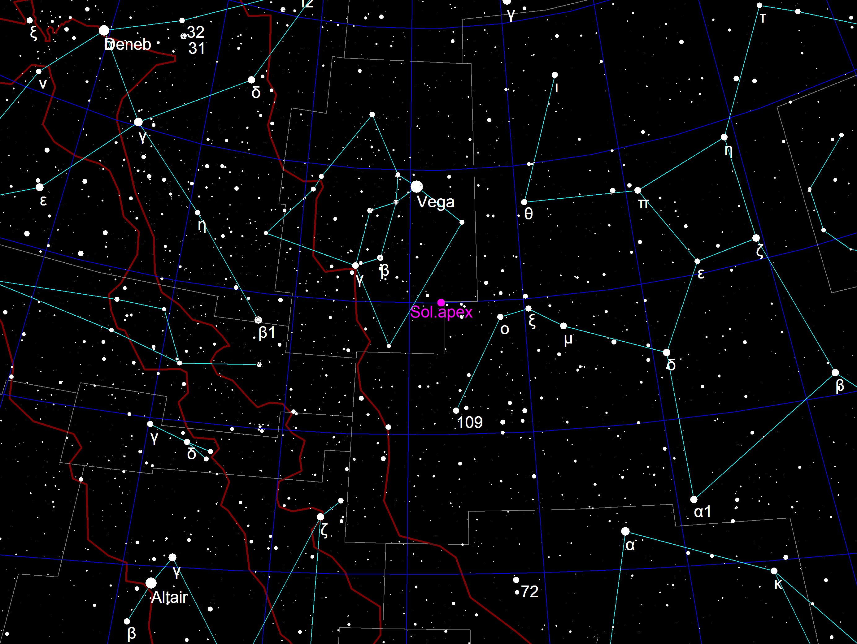 Solar antapex starmap, J2000.0 (RA) 18h28m and Dec 30°N